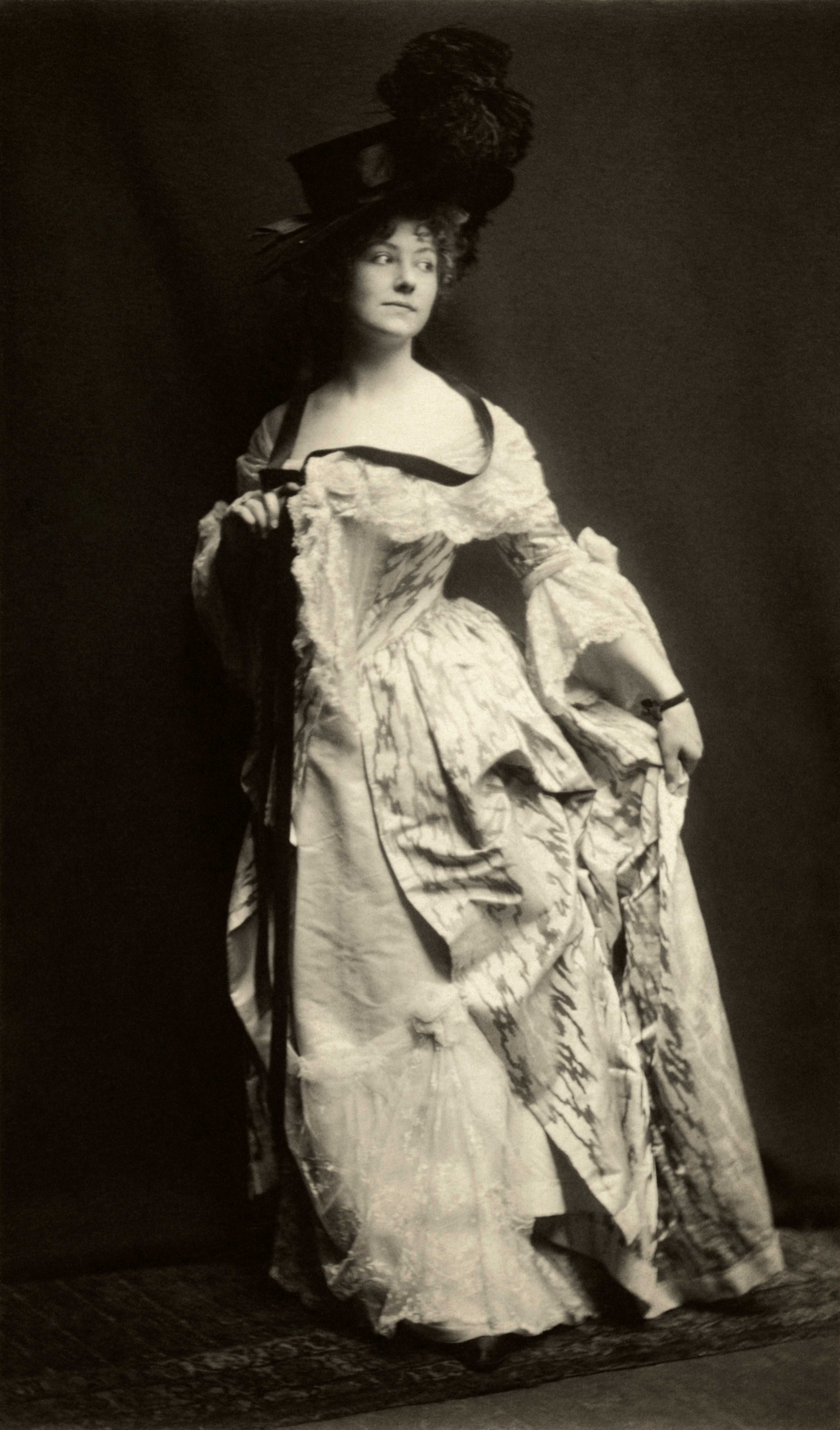 American actress Elsie Leslie (1881-1966) in costume as Lydia Languish in Richard Sheridan's play The Rivals. Photograph exhibited at the 2nd Philadelphia Photo Salon, 1899, and in "The life and portrait photography of Zaida Ben-Yusuf" at the National Portrait Gallery, Washington, D.C., 2008.